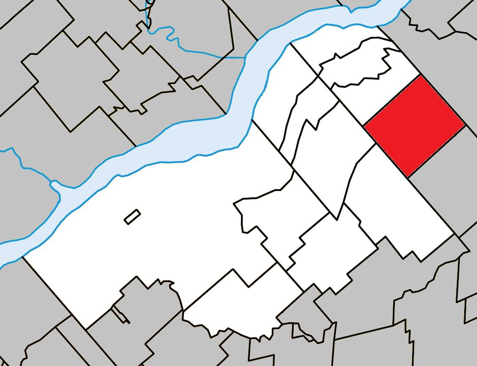 Location of Sainte-Françoise, Quebec within Bécancour Regional County Municipality.